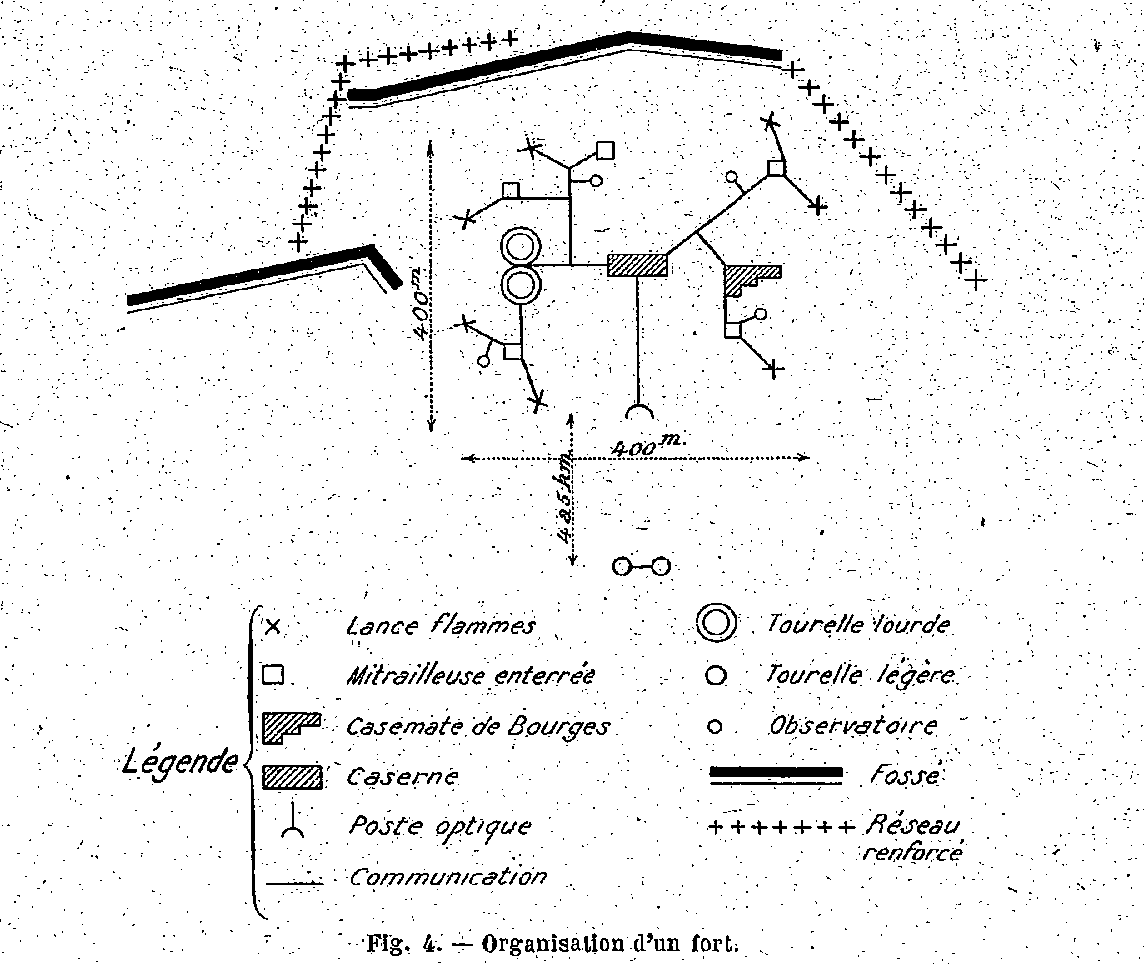 "Palm fort" proposed by the Colonel Tricaud.